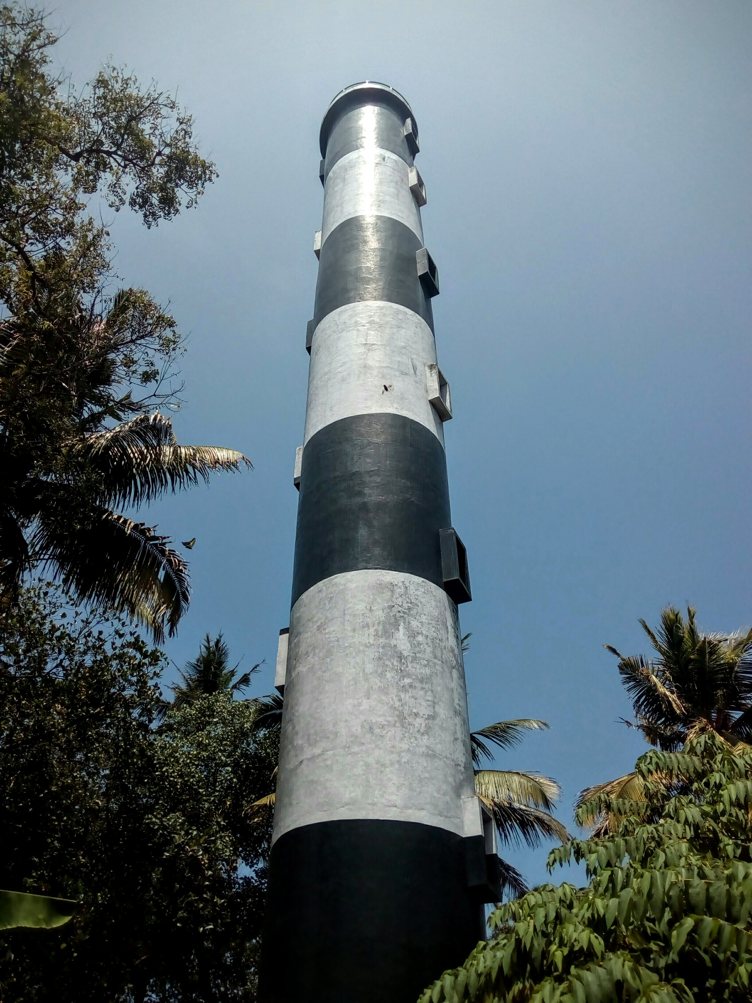 Anjuthengu lighthouse